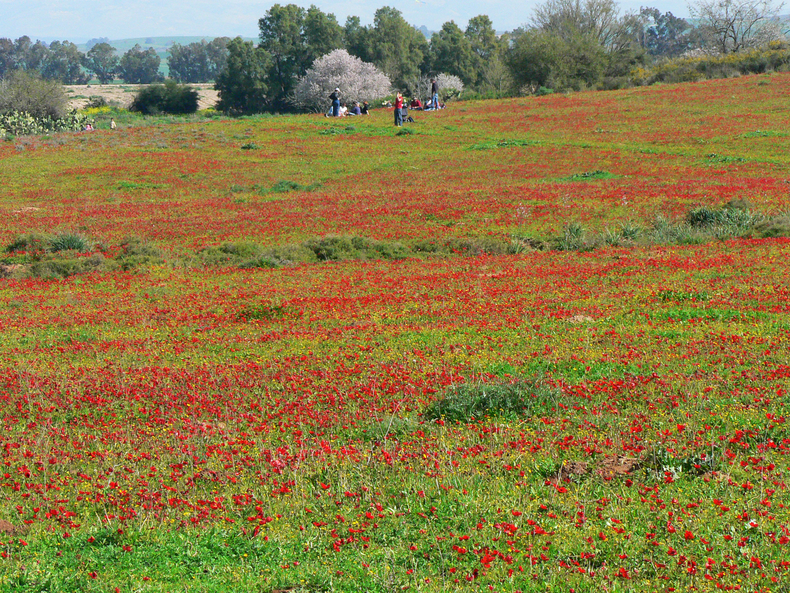 Carpets of red Anemone coronaria flowers near Kibbutz Or HaNer, Israel